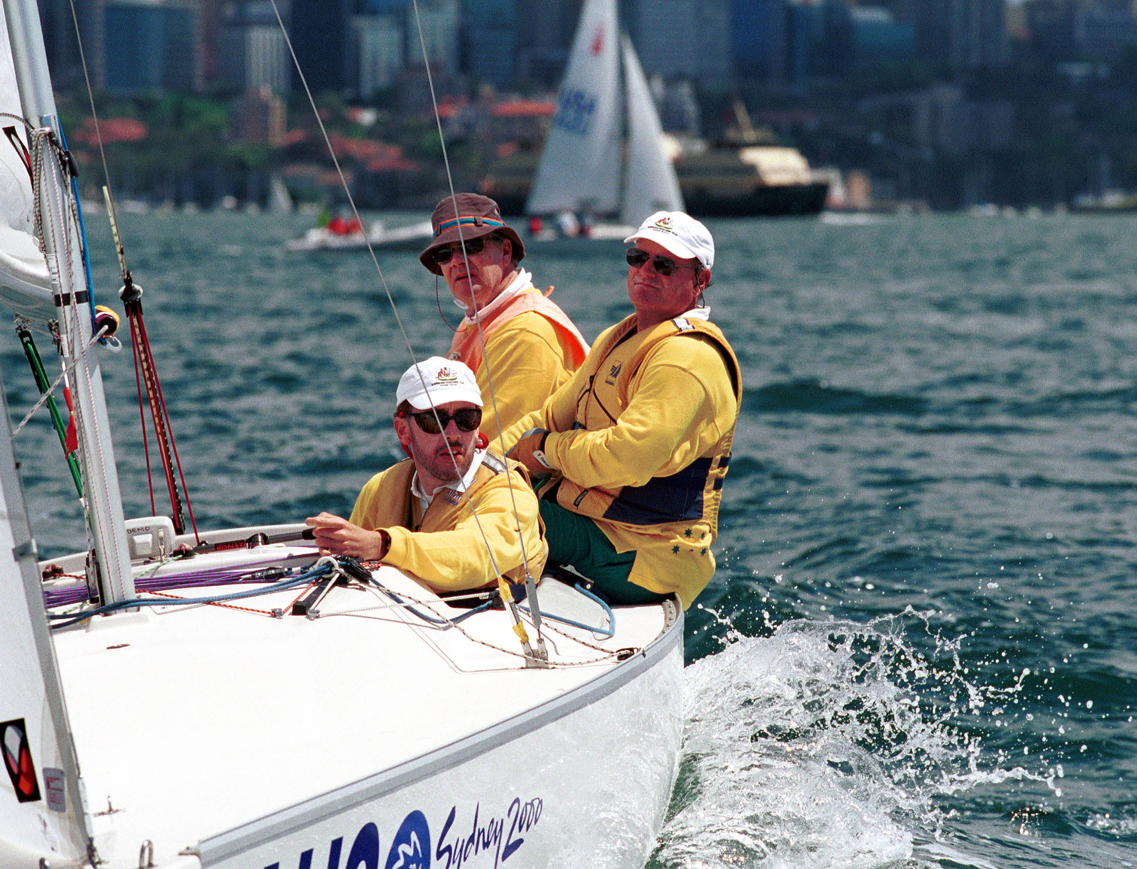 Action shot of Australian sonar class sailors Jamie Dunross, Noel Robins and Graeme Martin in the Sydney Harbour during sailing competition at the 2000 Sydney Paralympic Games